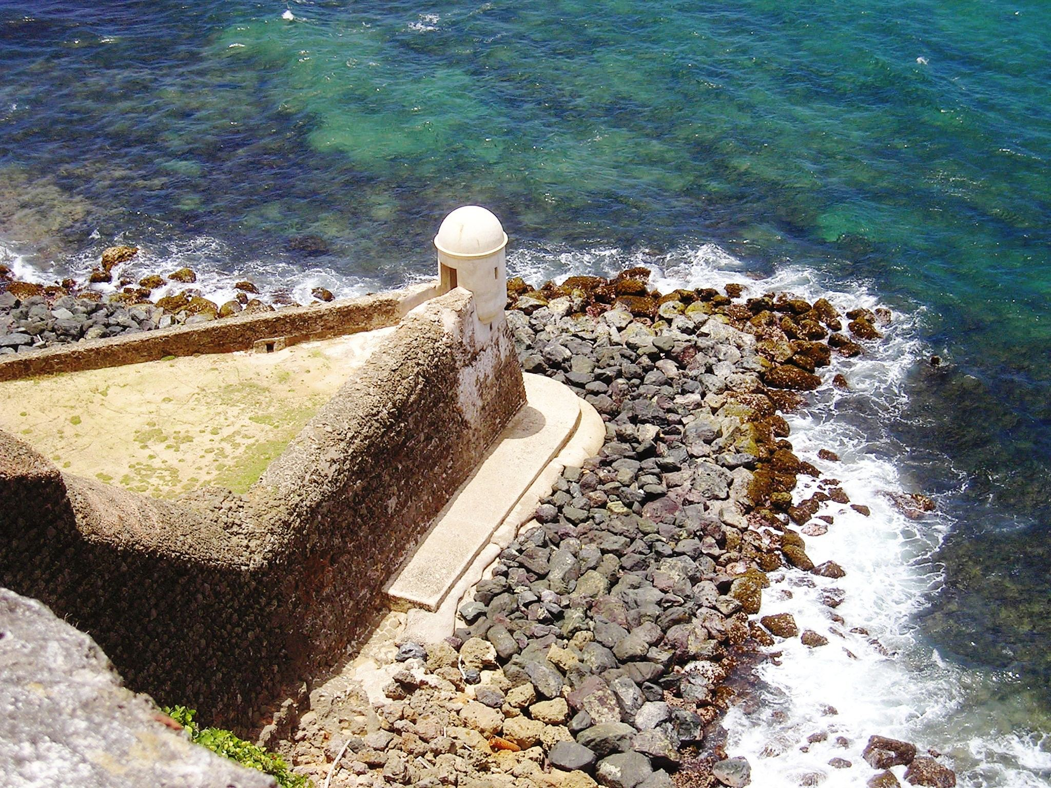 Devil's watchtower—bartizan at fort San Cristóbal, in Old San Juan (Puerto Rico), seen from the upper-northern side of the fort.